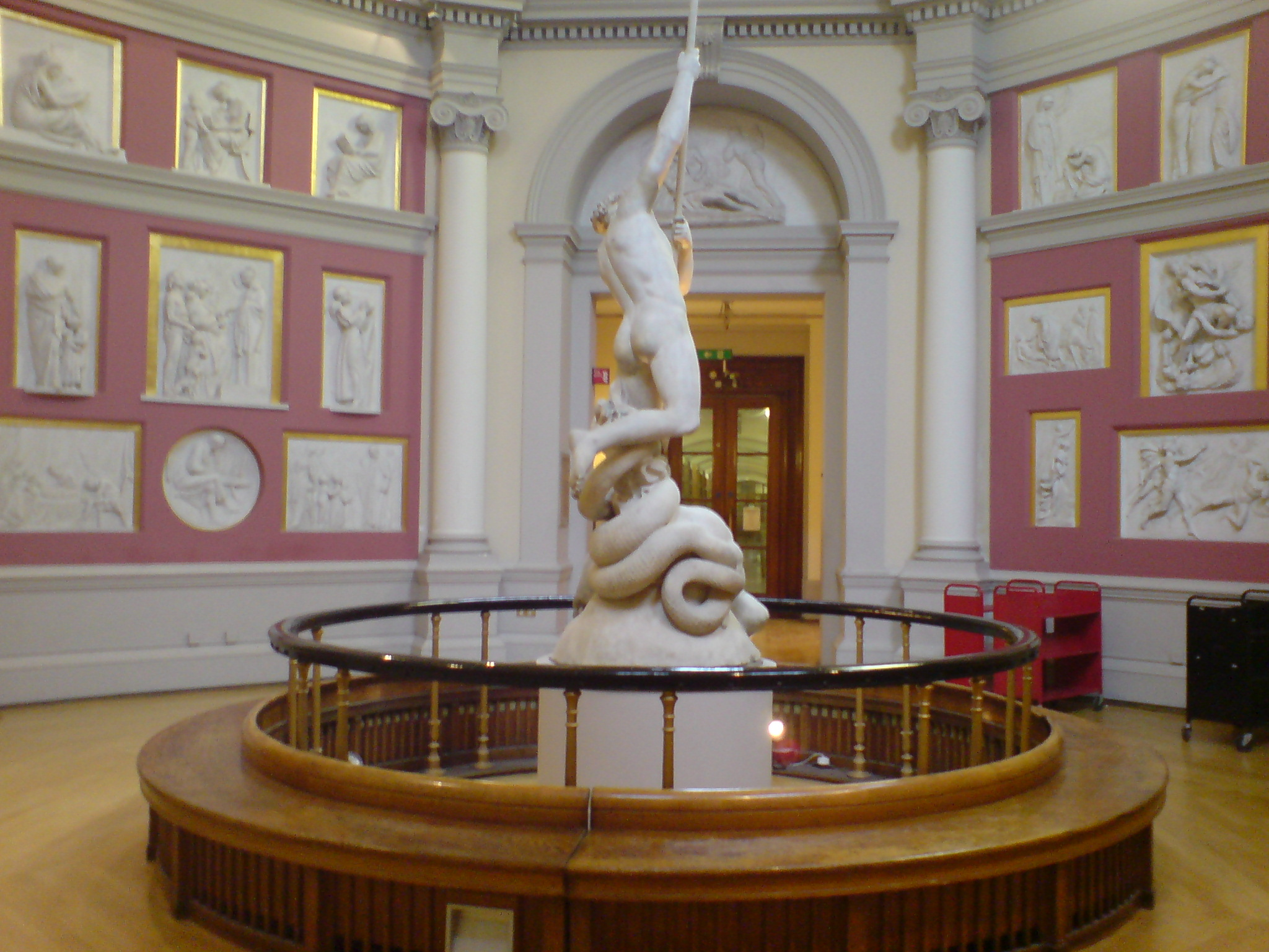 The Flaxman Gallery in University College London. Statue by John Flaxman in the center: St Michael Overcoming Satan.